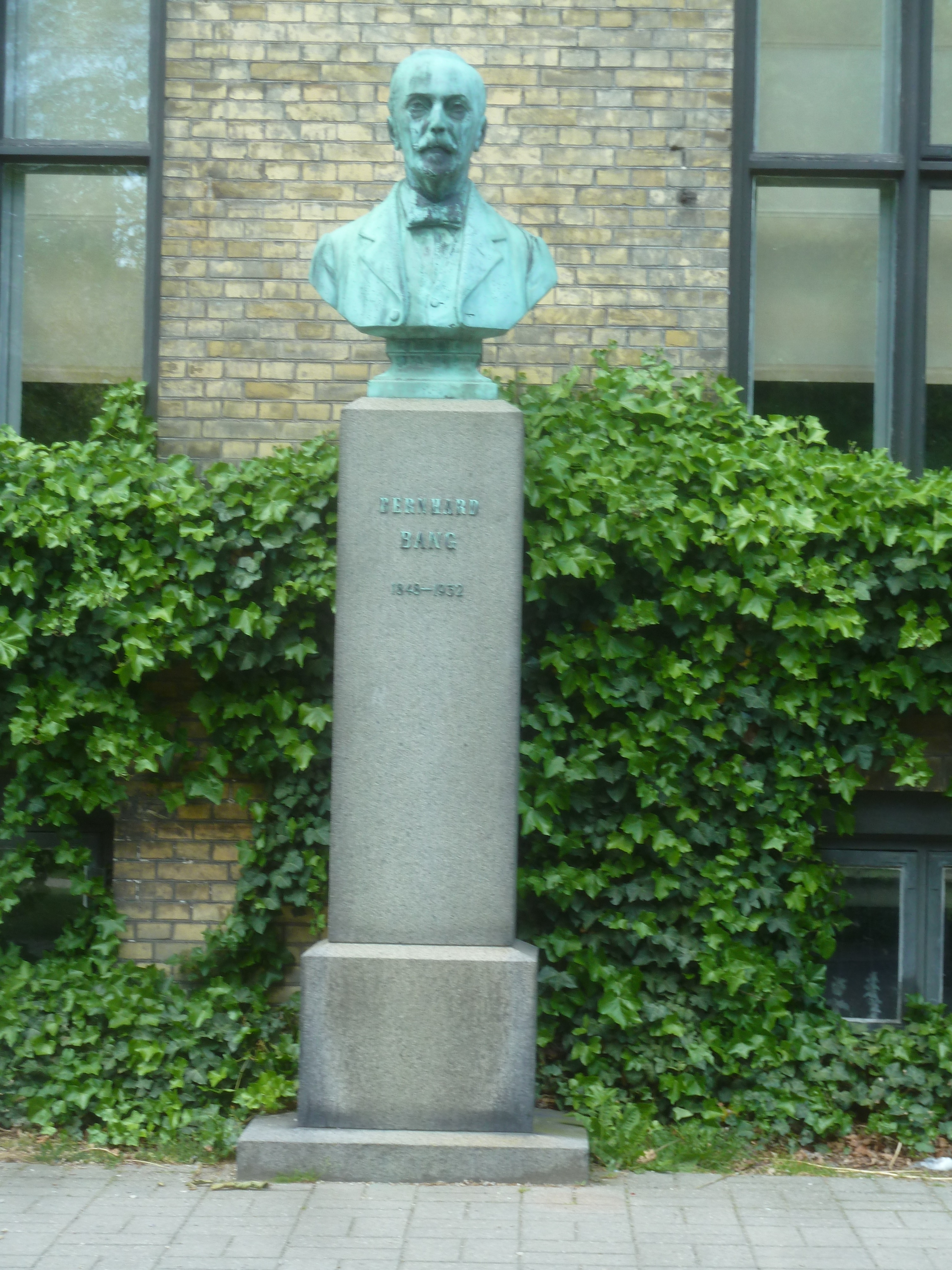 Bust by August Hassel (1864-1942) of Bernhard Bang in Grønnegården, part of University of Copenhagen's Frederiksberg Campus, in Copenhagen, Denmark